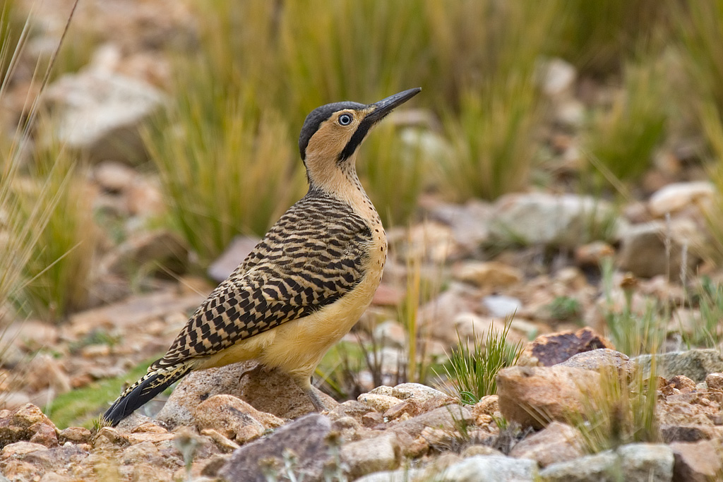 The Andean Flicker photographed in Peru.